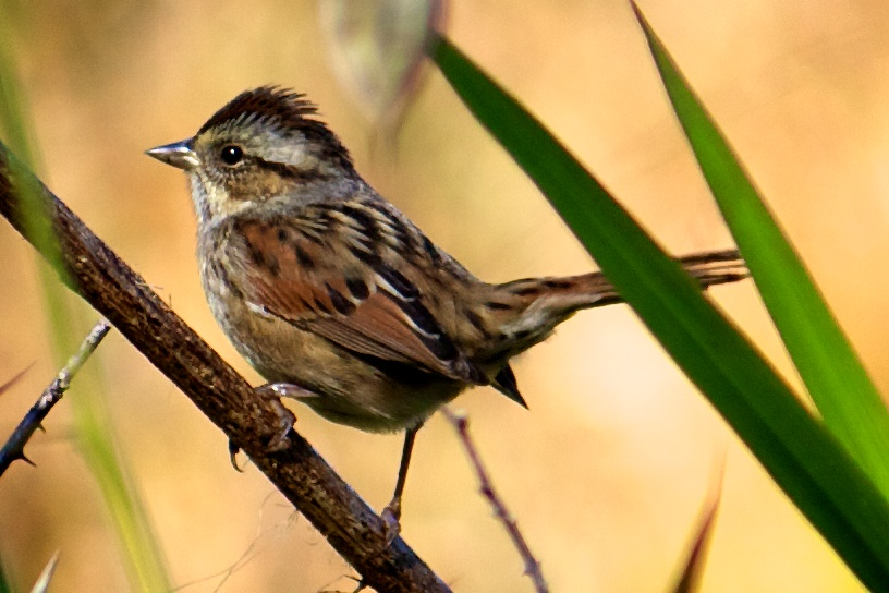 Swamp sparrow (Melospiza georgiana) at Bon Secour National Wildlife Refuge Credit: USFWS Photographer: Keenan Adams